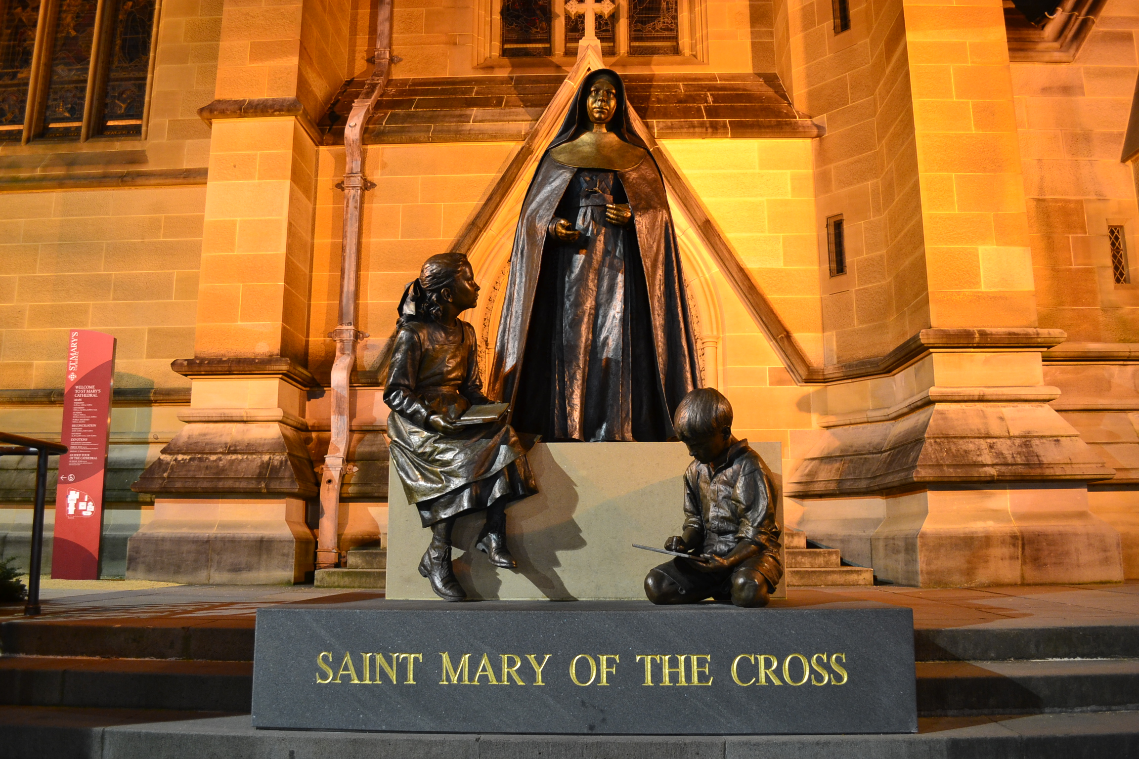 st marys cathedral, sydney